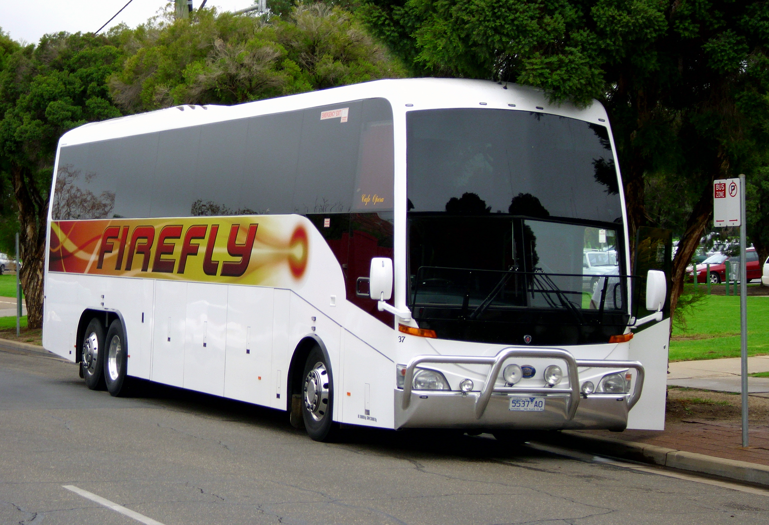 Coach Concepts bodied Scania K124EB coach owned and operated by Firefly Express.